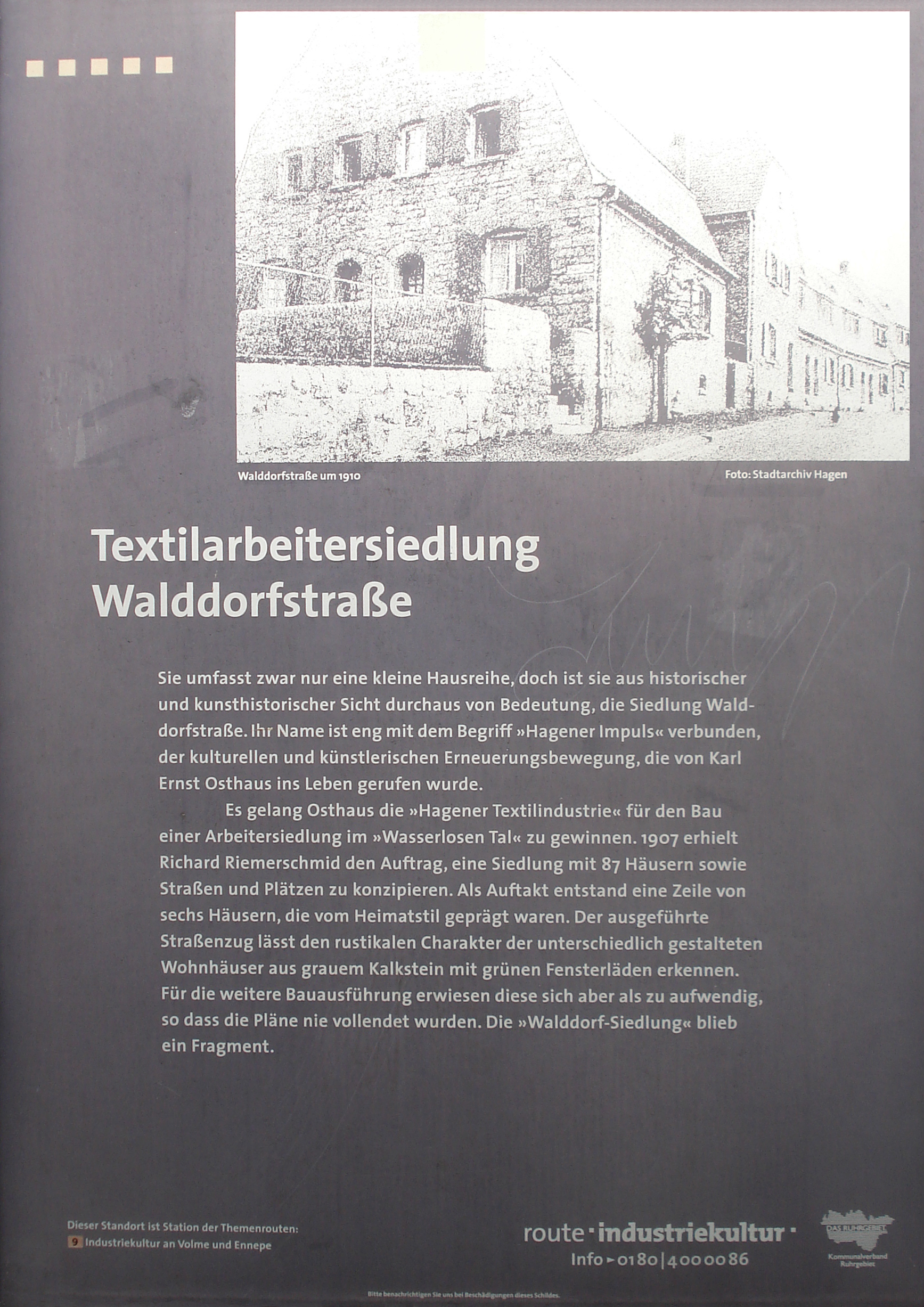 Working-class estate Walddorf Street, Hagen/Germany - Public sign